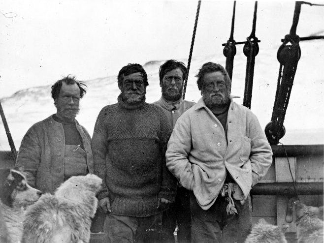 The Southern Party on board the ship Nimrod during the British Antarctic Expedition 1907-1909, after their return on 4th March 1909. From left: Frank Wild, Ernest Shackleton, Eric Marshall, Jameson Adams.